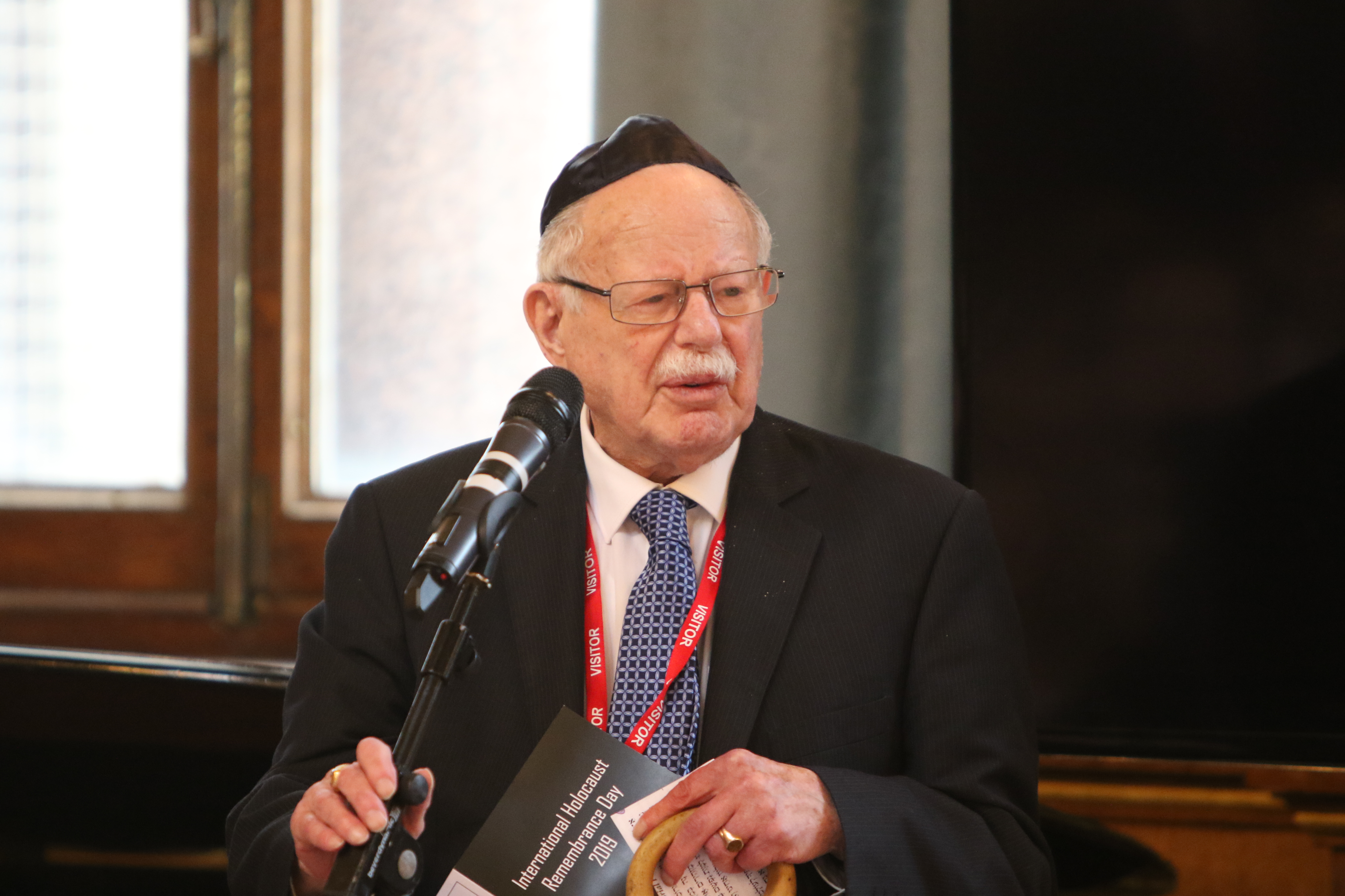 Rabbi Harry Jacobi MBE at the International Holocaust Remembrance Day event at the Foreign and Commonwealth Office in London, 23 January 2019.